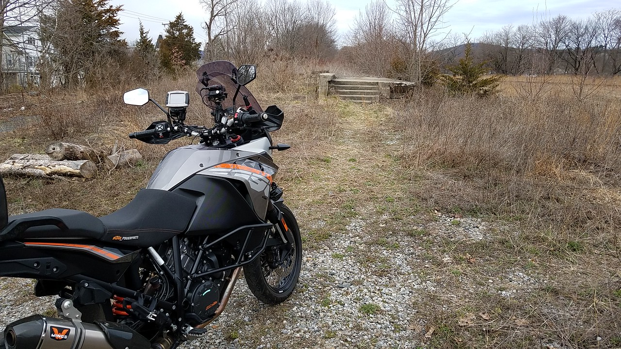 This is the freight platform of the Washington Railroad Station